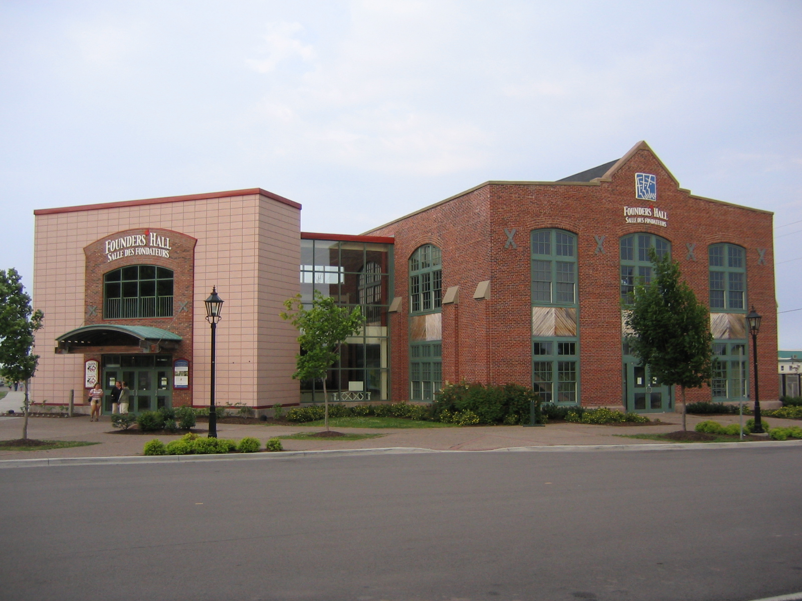 Founder's Hall, Charlottetown, Prince Edward Island